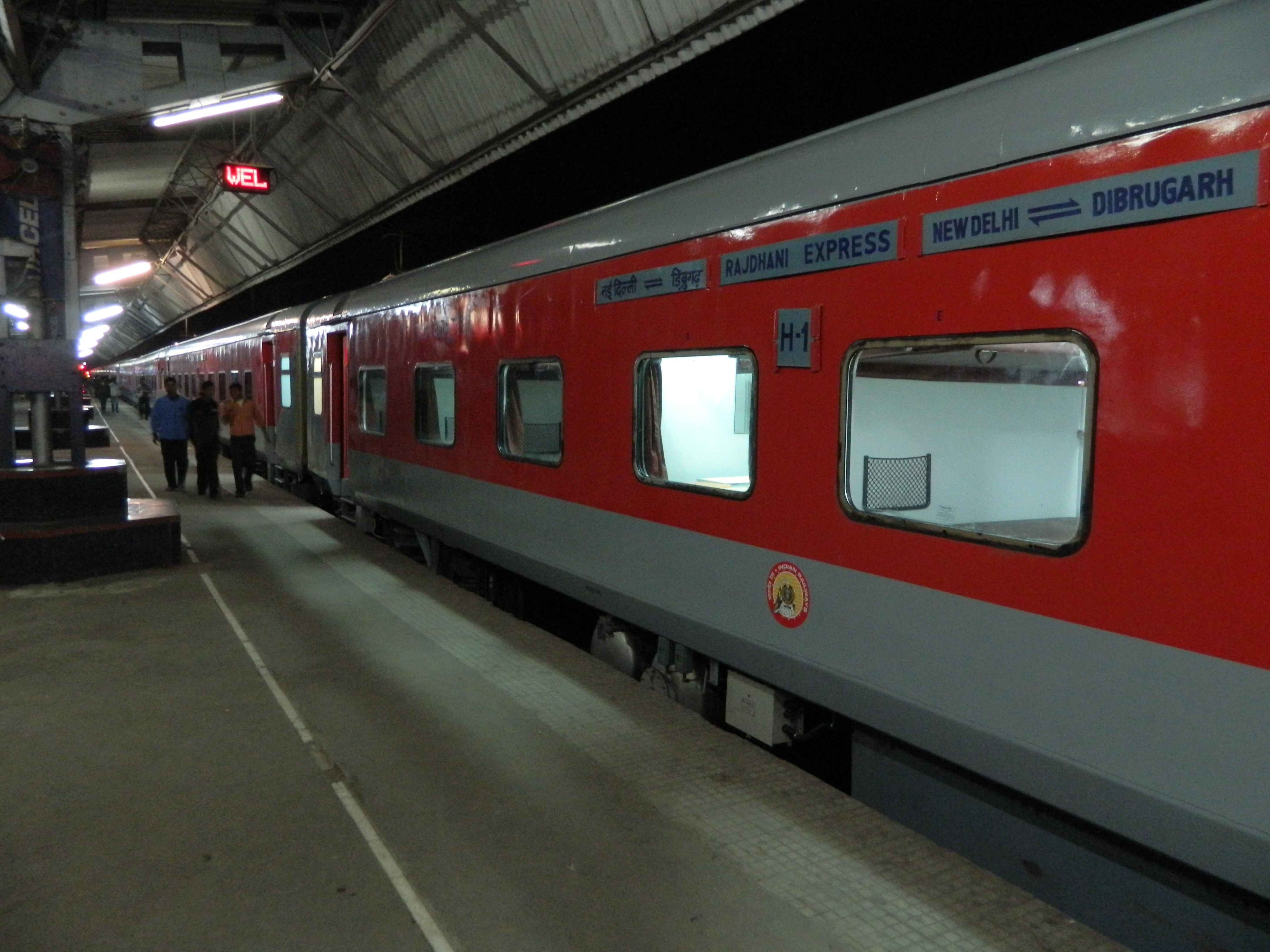 Dibrugarh-New Delhi Rajdhani Express standing at Dibrugarh Town railway station